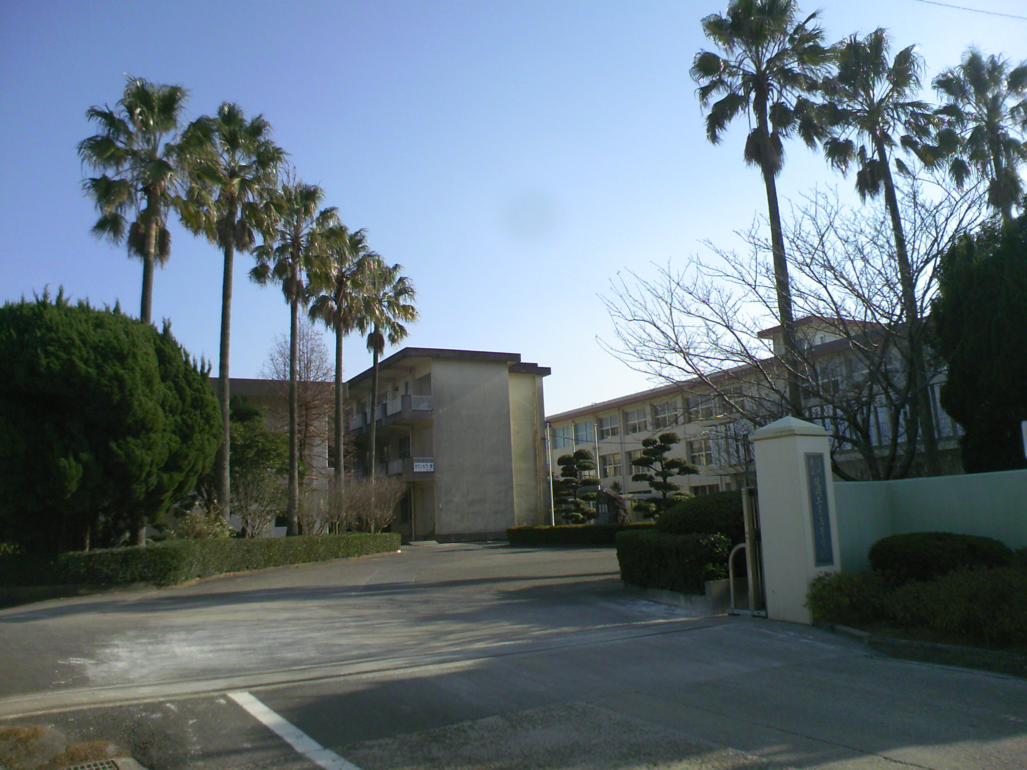 Nobeoka Technical High School